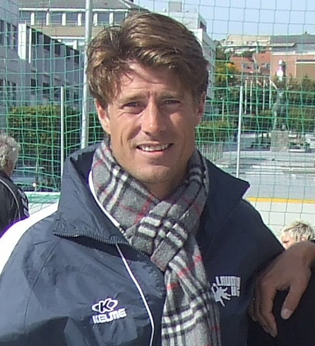 Brian Laudrup, Darren Laver & Lars Høgh coaching in Odense, Denmark